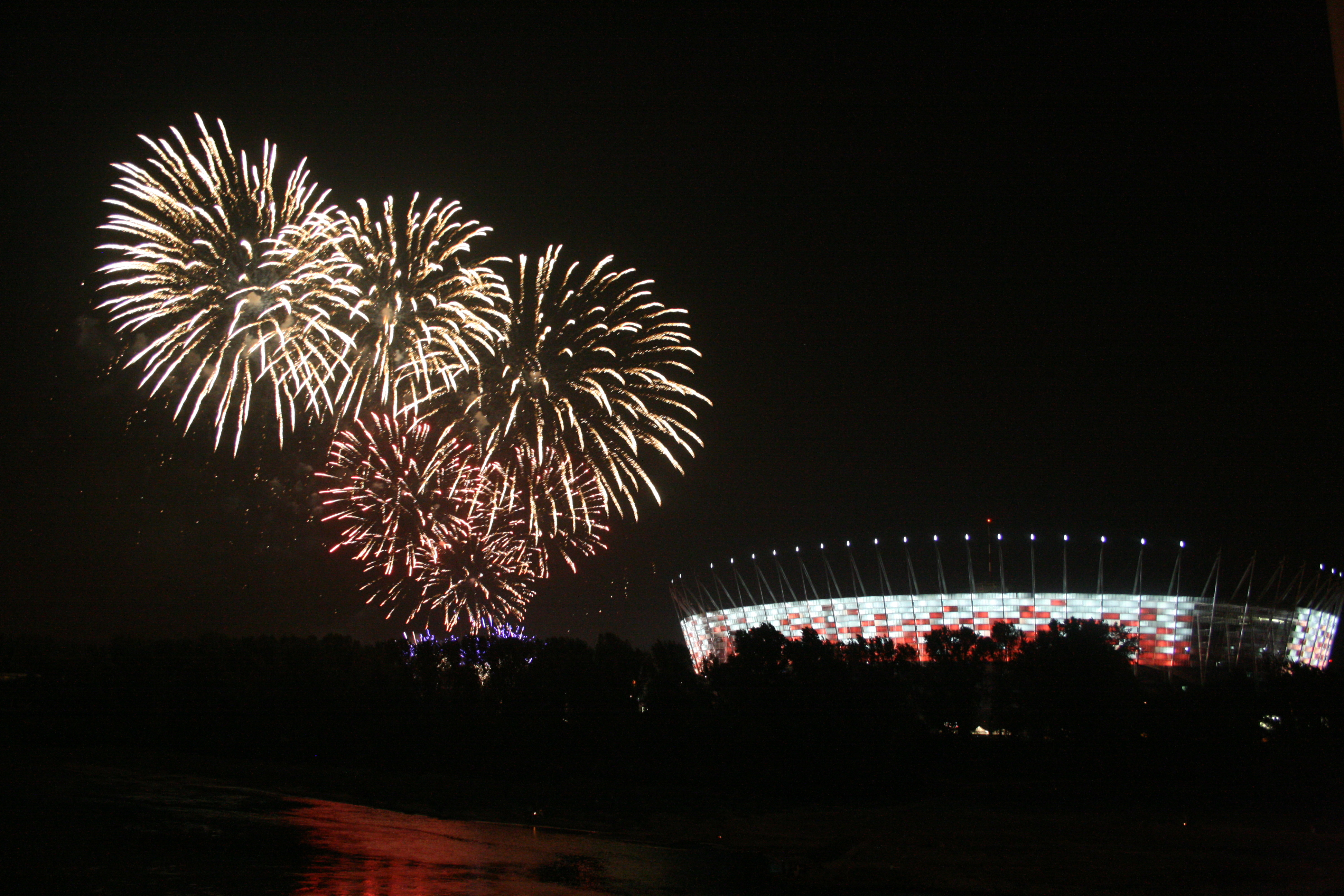 First illumination of National Stadium in Warsaw